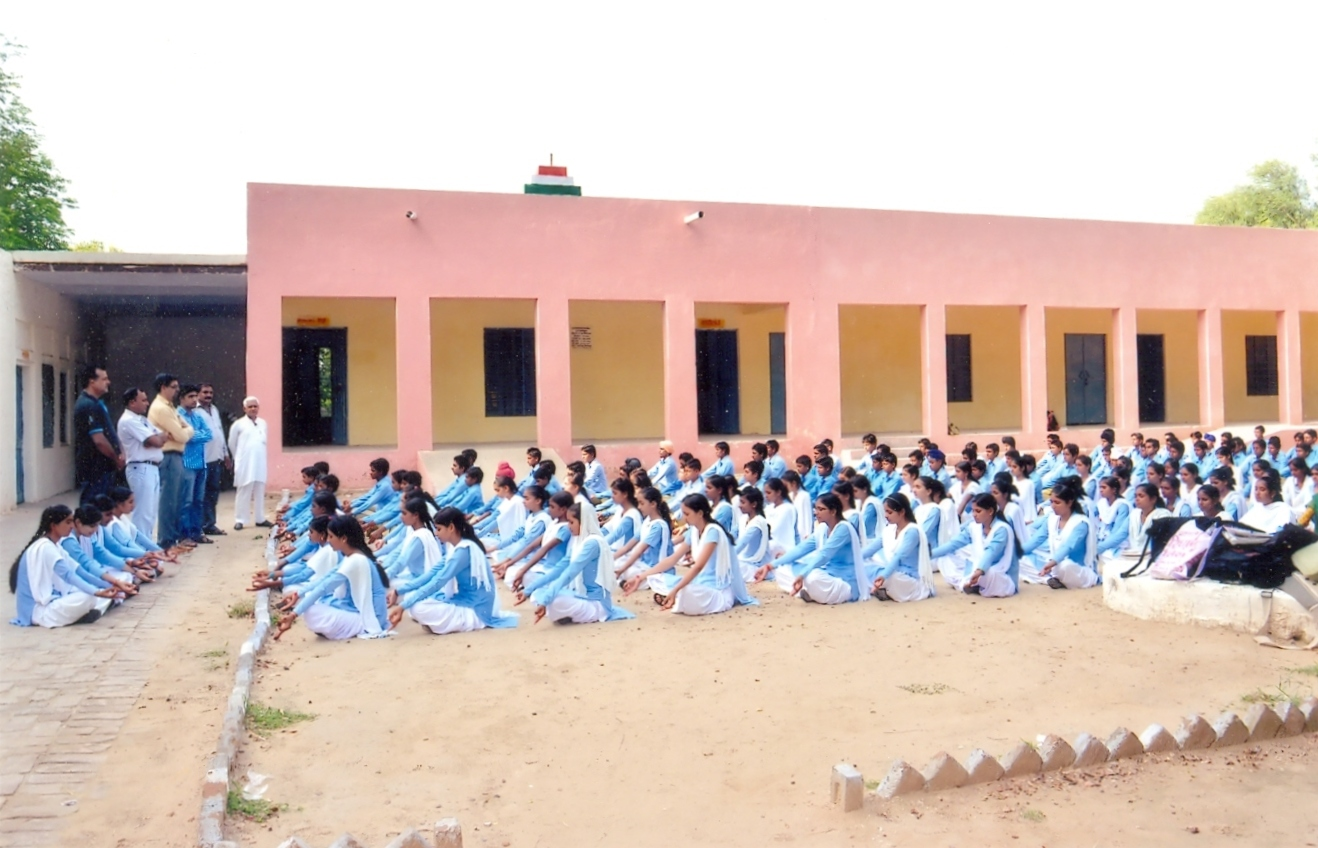 building gsss31ps